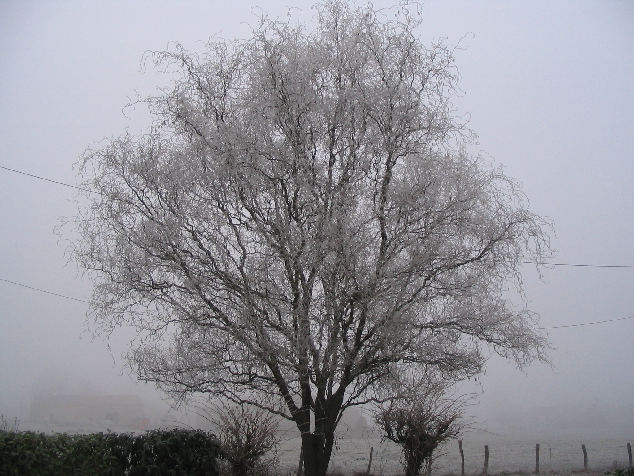 Frozen tree at Saint-Nexans, near Bergerac, France